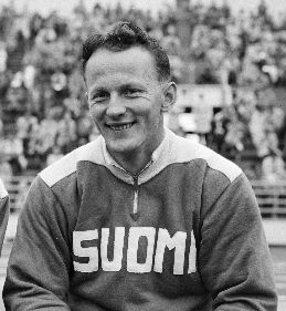 Photograph of the Finnish jawelin thrower Toivo Hyytiäinen (1925–1978) at Helsinki Summer Olympics.